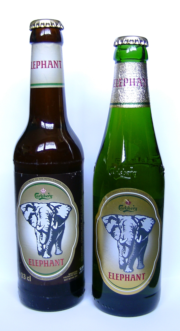 Elephant beer bottles from Carlsberg, earlier (left) and later design, both brewed in Germany 7.5 % alc